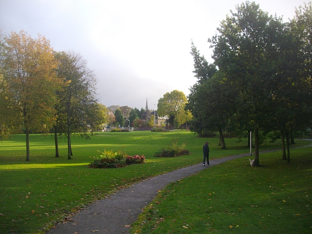 Parkland below Bon Accord Crescent Looking across the park in towards the spire of the church on Ferryhill.